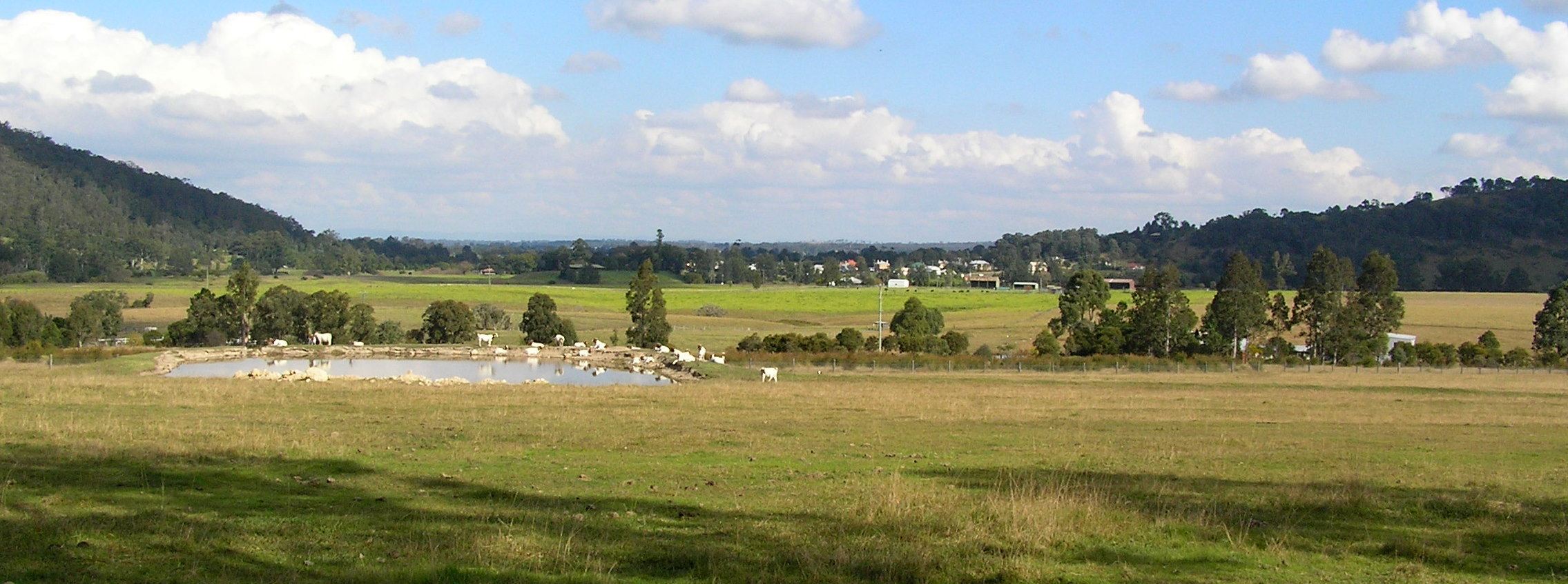 Paterson rural scene viewing village to the south west from Keppies Rd. the rising ground to left and right of the photo forms the beginning of the Paterson valley.